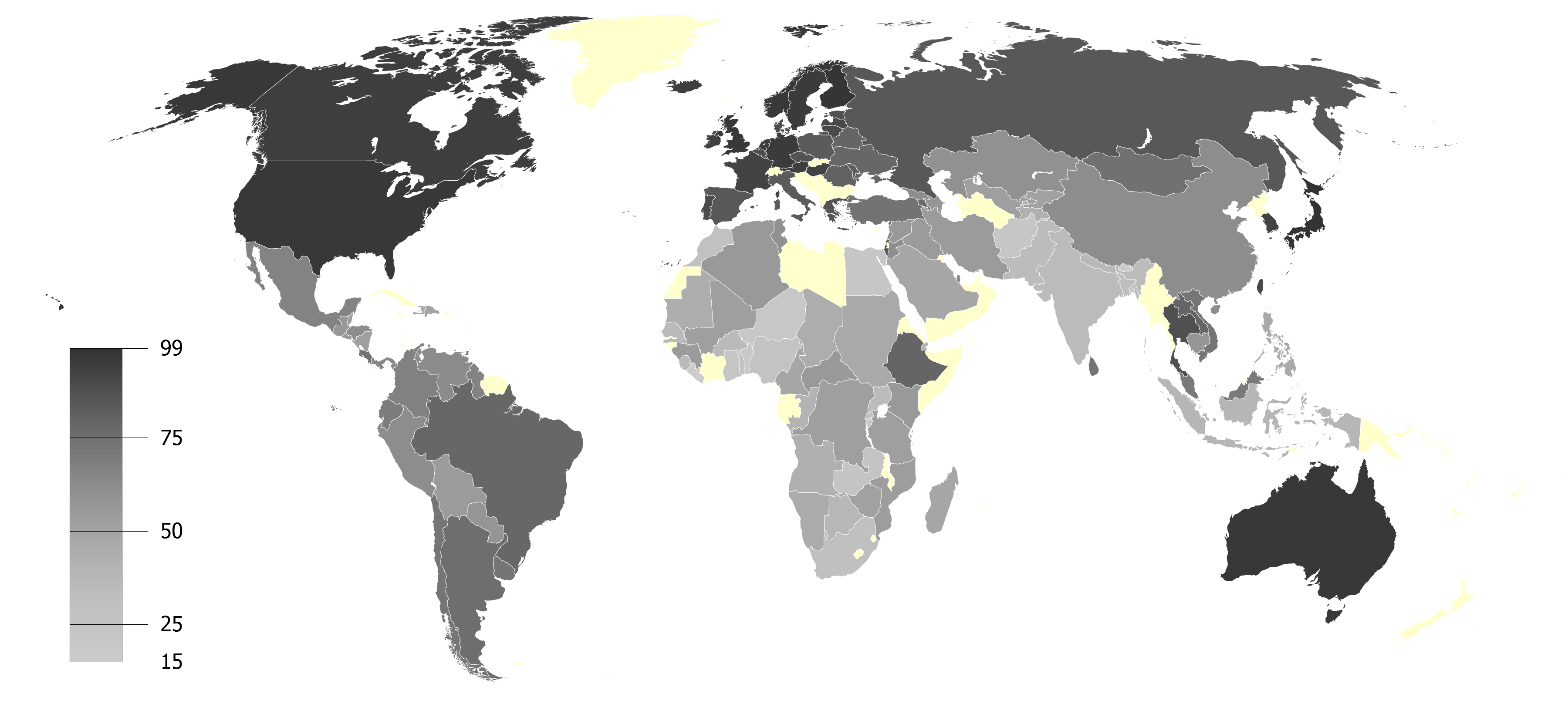 Percentage reporting "something" or a "great deal" about global warming from a 2007-2008 Gallup Poll. This map was created with GunnMapGunnMap was created by Arthur Gunn and is available, free, at and attribute by linking to Data Set: Afghanistan,25 Algeria,56 Angola,43 Argentina,76 Armenia,78 Australia,97 Austria,95 Azerbaijan,58 Bangladesh,33 Belarus,80 Belgium,89 Belize,53 Benin,21 Bolivia,55 Botswana,38 Brazil,79 Burkina Faso,36 Burundi,22 Cambodia,58 Cameroon,49 Canada,95 Central African Republic,56 Chad,45 Chile,73 China,62 Colombia,68 Democratic Republic of the Congo,53 Republic of the Congo,41 Costa Rica,75 Czech Republic,87 Denmark,90 Djibouti,43 Dominican Republic,50 Ecuador,70 Egypt,25 El Salvador,55 Estonia,88 Ethiopia,80 Finland,98 France,93 Georgia,62 Germany,96 Ghana,26 Greece,87 Guatemala,57 Guinea,55 Guyana,67 Haiti,46 Honduras,62 Hong Kong,93 Hungary,93 Iceland,95 India,35 Indonesia,39 Iran,55 Iraq,55 Ireland,94 Israel,86 Italy,84 Japan,99 Jordan,62 Kazakhstan,60 Kenya,56 Kyrgyzstan,52 Laos,80 Latvia,91 Lebanon,64 Liberia,15 Lithuania,91 Luxembourg,95 Madagascar,49 Malaysia,71 Mali,53 Malta,75 Mauritania,44 Mexico,67 Moldova,83 Mongolia,75 Morocco,30 Mozambique,54 Namibia,46 Nepal,37 Netherlands,96 Nicaragua,53 Niger,24 Nigeria,28 Norway,97 Pakistan,34 Palestine,67 Panama,65 Paraguay,58 Peru,62 Philippines,47 Poland,84 Portugal,90 Romania,81 Russia,85 Rwanda,30 Saudi Arabia,49 Senegal,36 Sierra Leone,36 Singapore,84 South Africa,31 South Korea,93 Spain,85 Sri Lanka,73 Sudan,47 Sweden,96 Syria,56 Taiwan,91 Tajikistan,43 Tanzania,53 Thailand,88 Togo,29 Trinidad and Tobago,72 Tunisia,60 Turkey,74 Ukraine,79 United Kingdom,97 United States,97 Uganda,35 Uruguay,73 Uzbekistan,53 Venezuela,63 Vietnam,73 Zambia,27 Zimbabwe,52